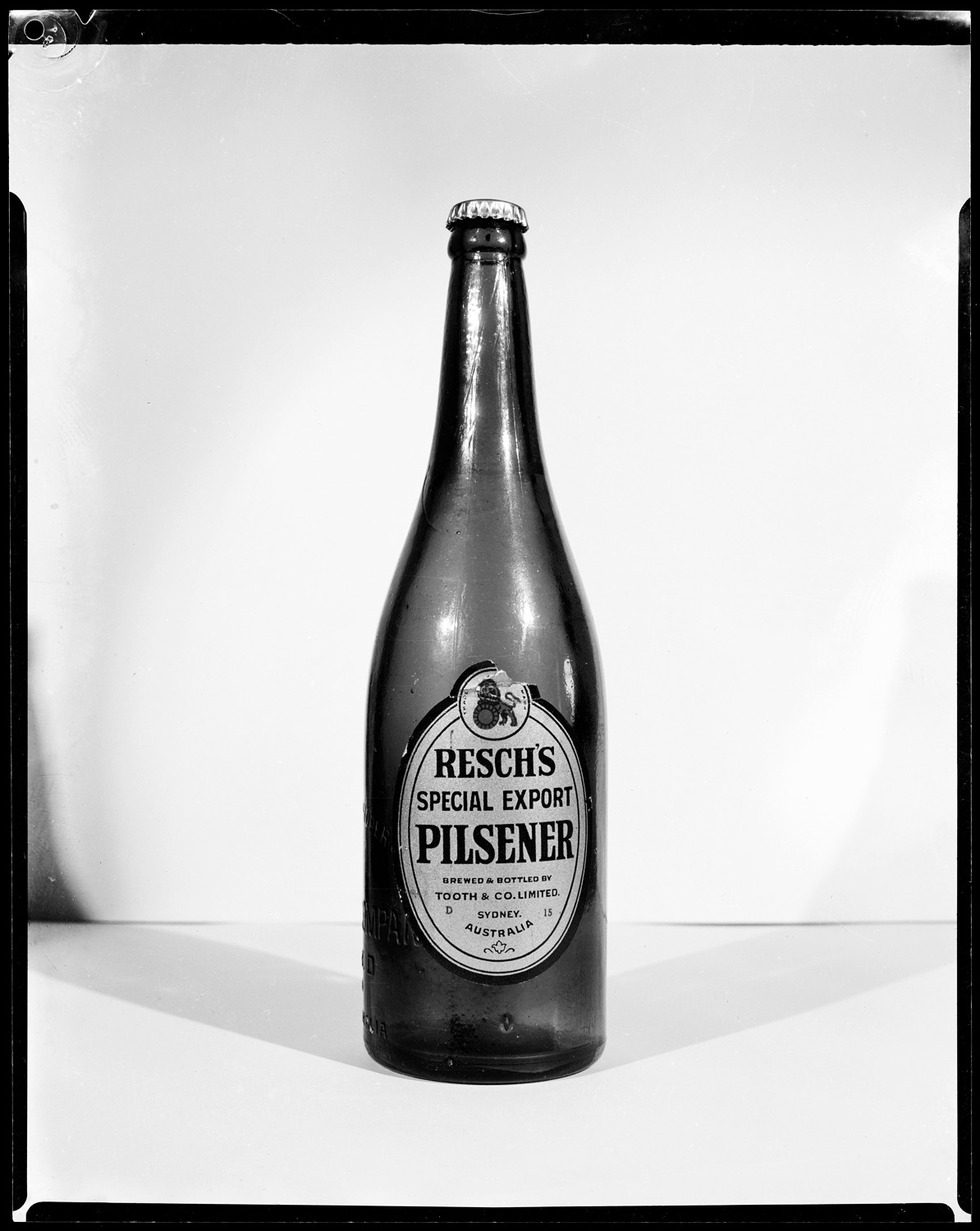 Photograph taken as evidence from a scene of poisoning.